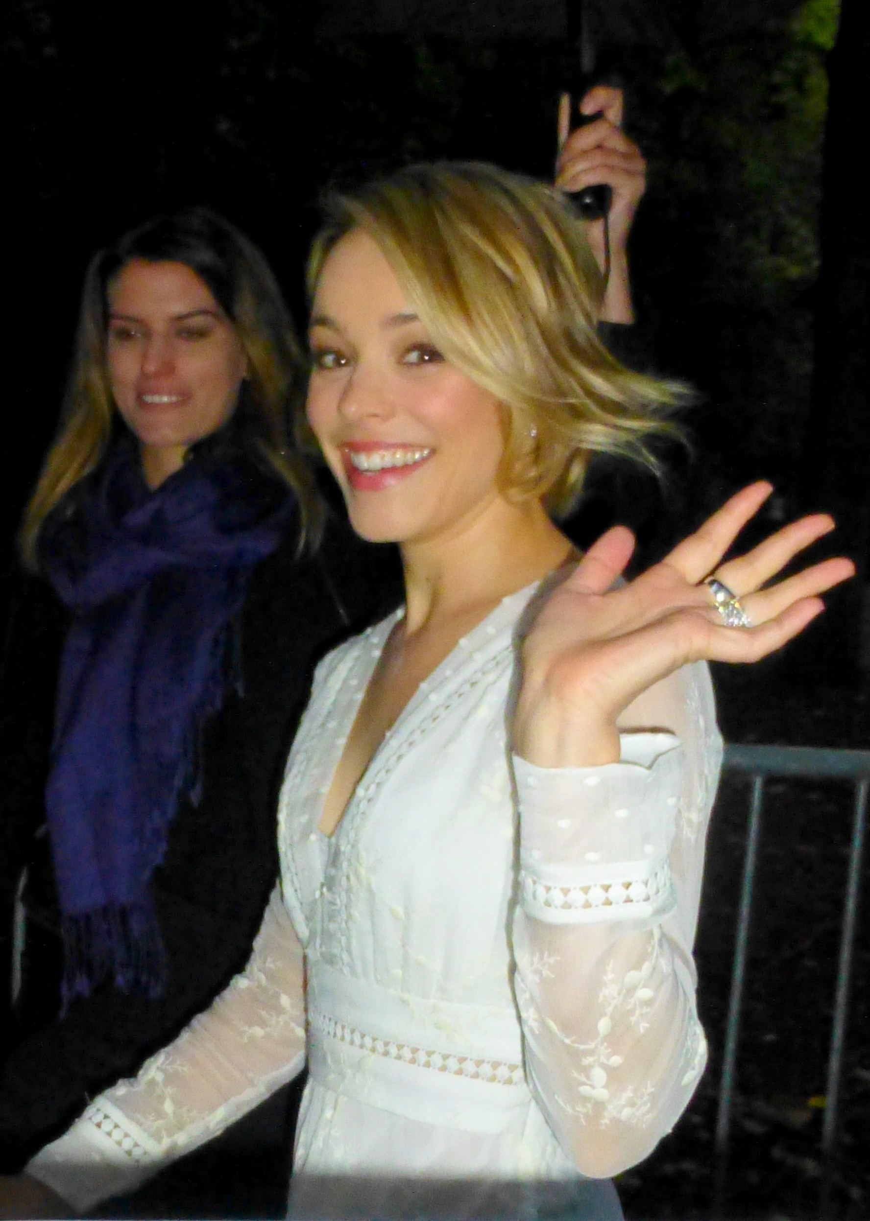 Rachel McAdams at Jason Reitman's live table read of The Princess Bride, 2015 Toronto Film Festival